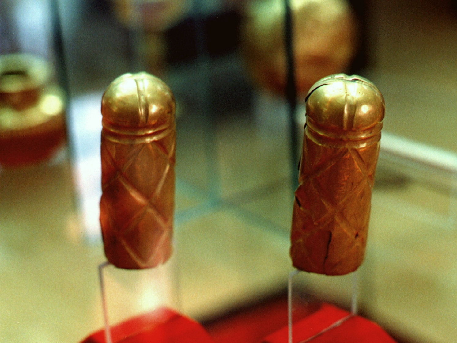 Condoms made of gold, with geometrical reliefs, probably funeral. Alacahöyük, Bronze Age, late 3rd millennium BC. Museum of Anatolian Civilizations, Ankara.